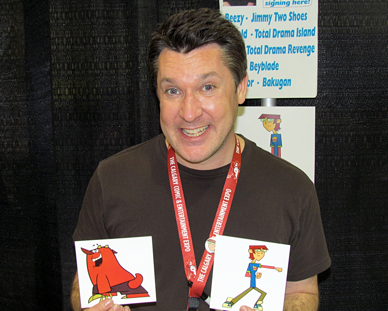 Brian Froud at calgary comic expo in 2012